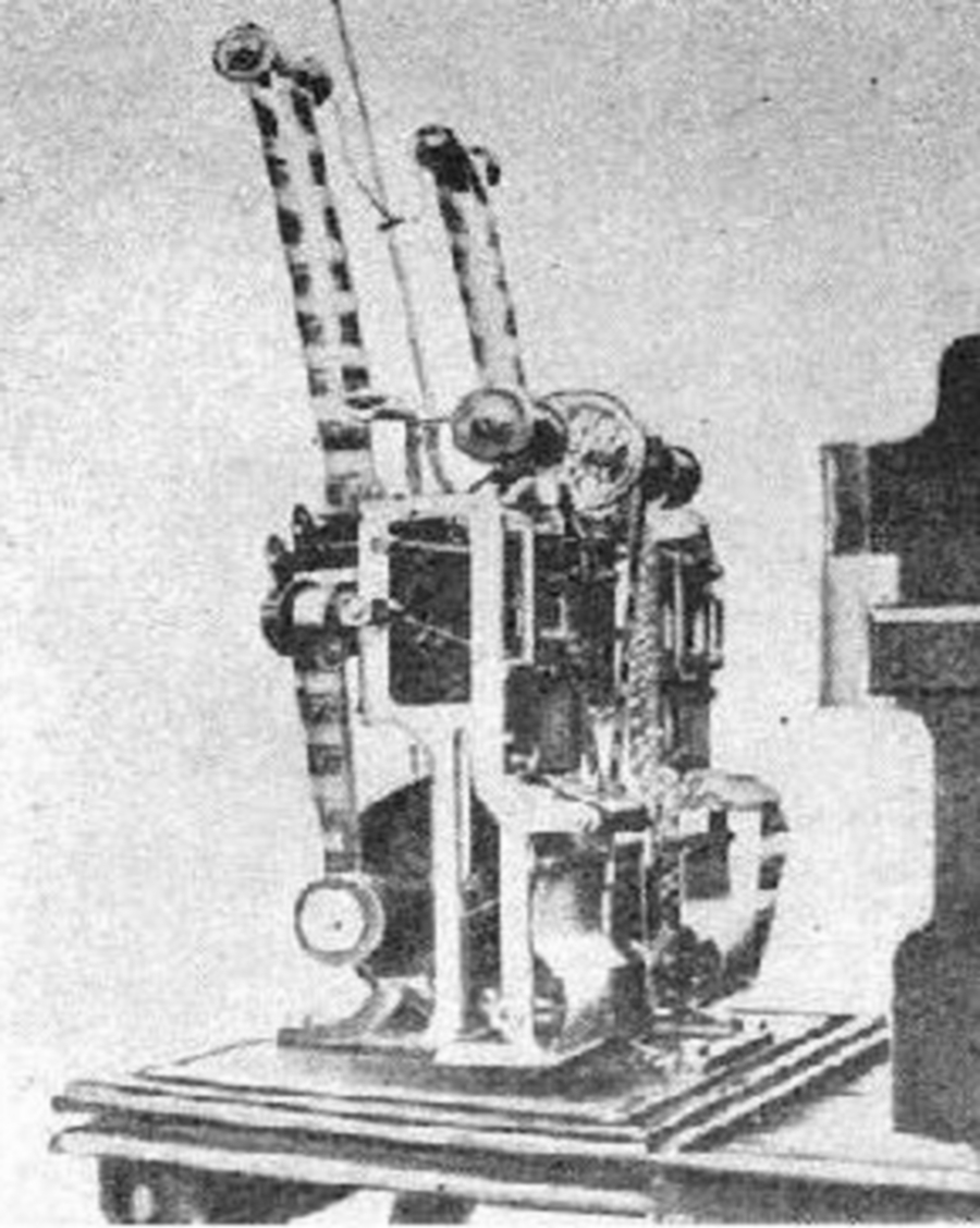 Biopleograph projector Kazimierz Prószyński 1898.